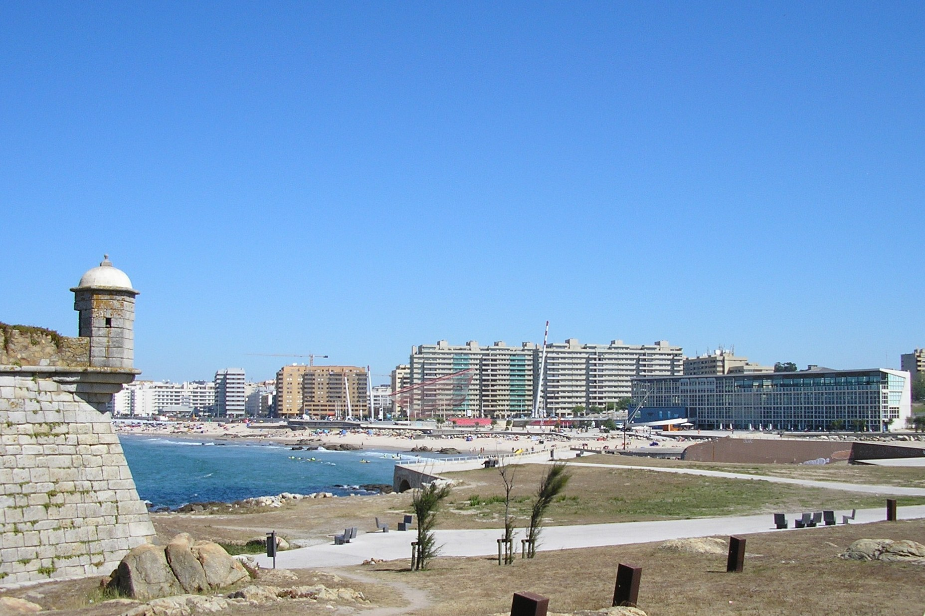 "Transparent" building in Porto, Portugal